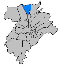 Map of Luxembourg City, Luxembourg, with the boundaries of the city's twenty-four quarters demarcated and the quarter of Beggen highlighted in blue.